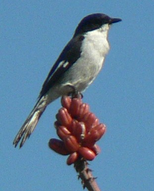 Oom_Kosie took this picture on the banks of the Breede River near Swellendam in South Africa.